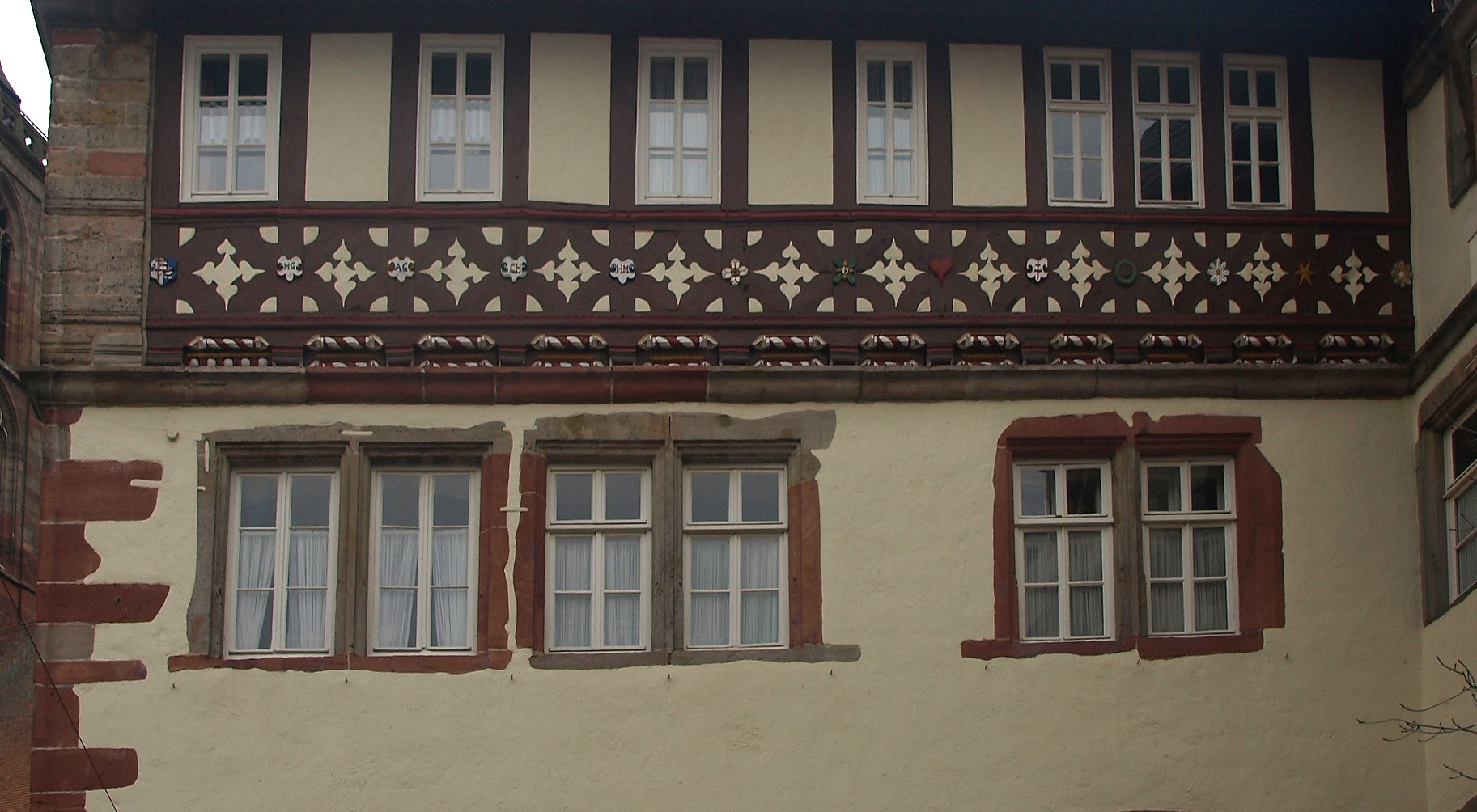 fourth floor of town hall in Bad Hersfeld, built in timber framing.